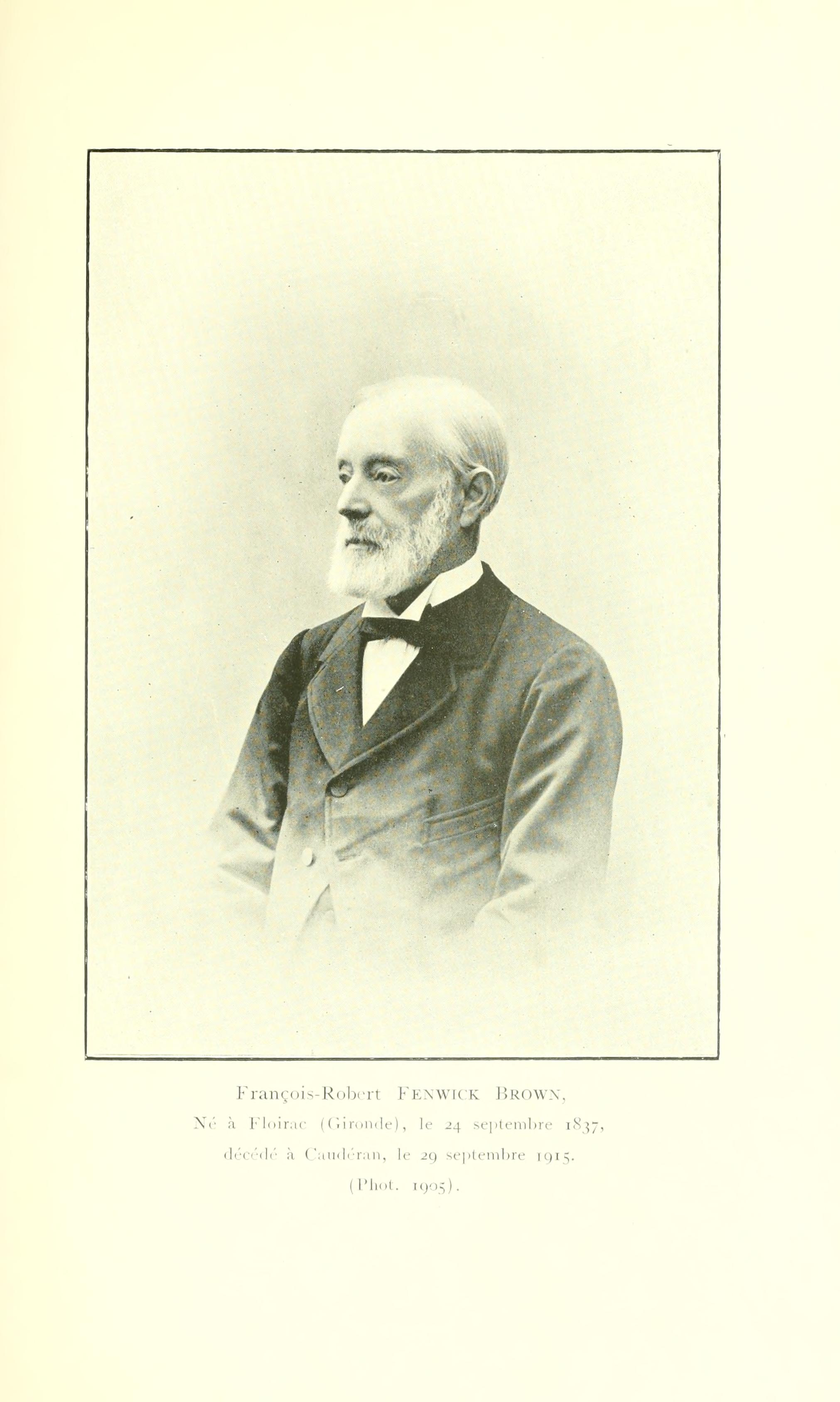 Francoise- Robert Fenwick Brown